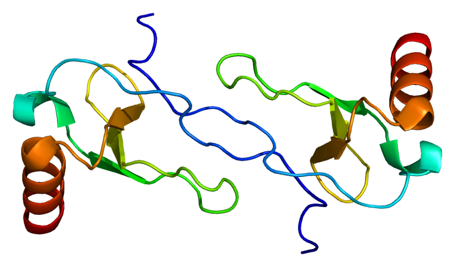 Structure of the CCL4 protein. Based on PyMOL rendering of PDB 1hum.